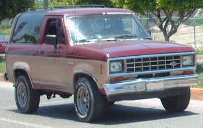 1984-1988 Ford Bronco II photographed in Mazatlan, Sinaloa, Mexico.